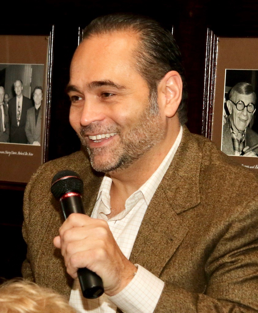 James Ciccone at the New York Friars Club, 2015